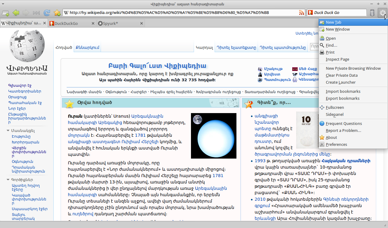 Screenshot of Midori 0.4.3. with Armenian Wikipedia mainpage (in an Xubuntu/XFCE environment)